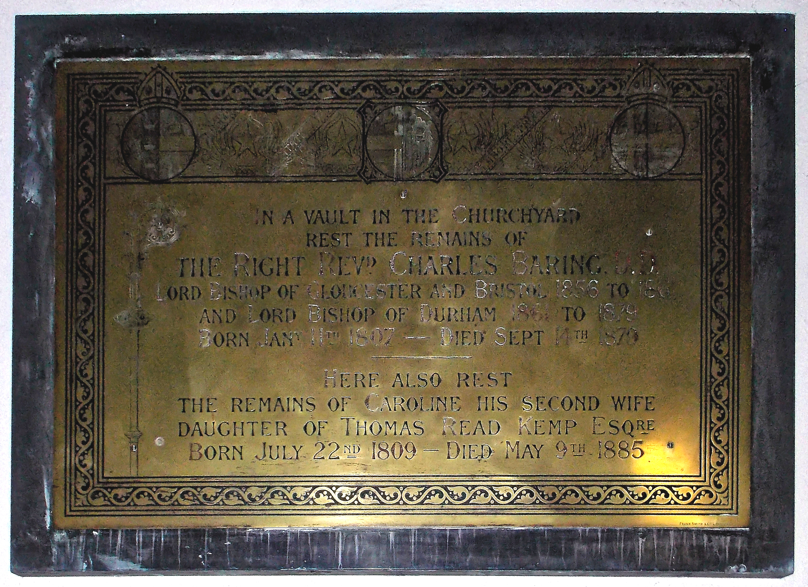 Brass plaque memorial to the Right Rev. Charles Baring (1807 - 1879), and his second wife, Caroline (1805 - 1889), in Holy Innocents Church, High Beach (or High Beech), Essex, England.Software: file lens-corrected and optimized with DxO OpticsPro 10 Elite and Viewpoint 2, and further optimized with Adobe Photoshop CS2.